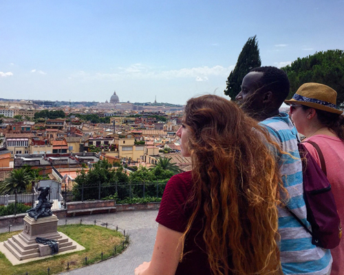 Walsh University students experience Rome. Photo from the Walsh University Office of Global Learning.